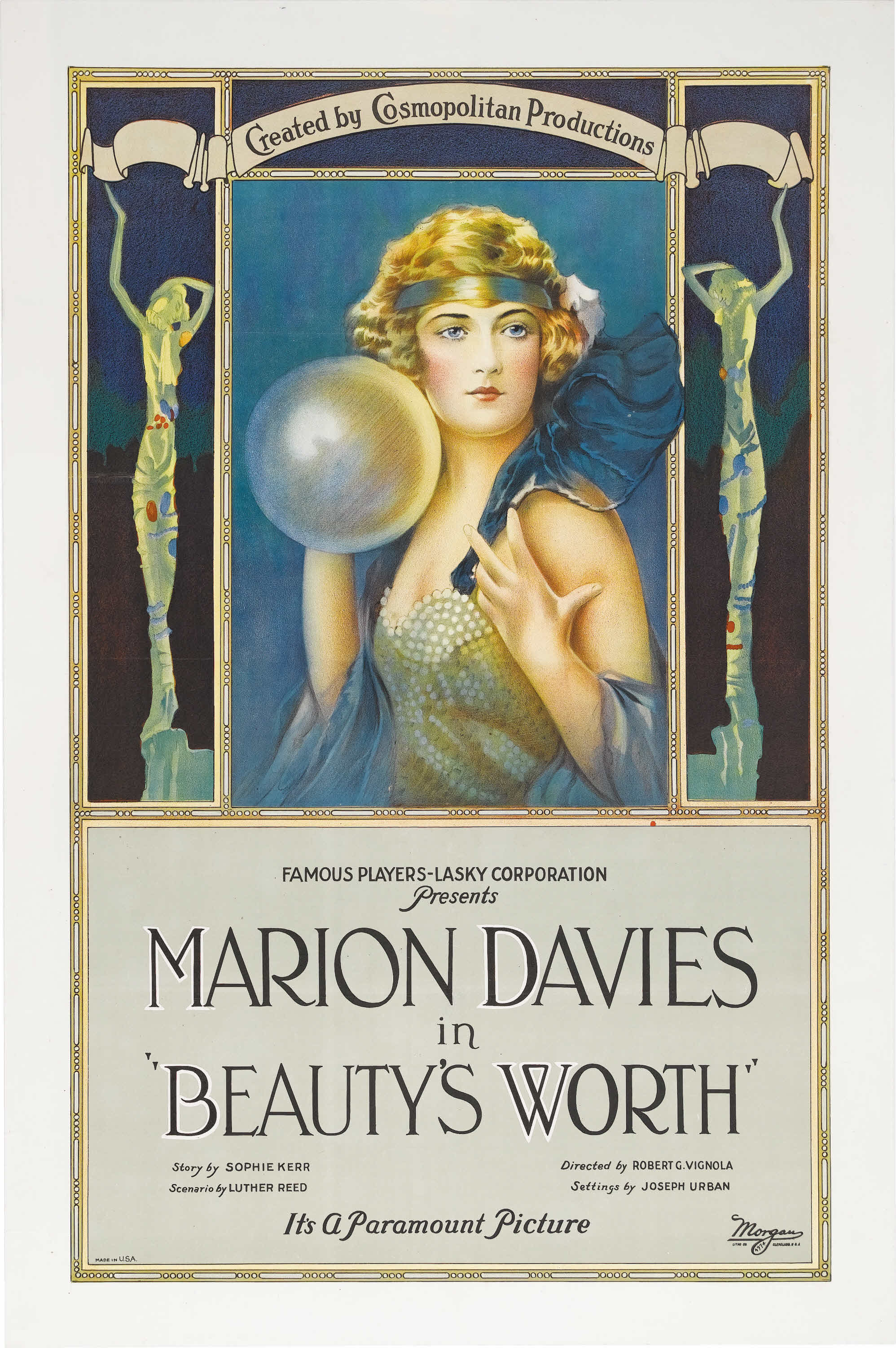 Film poster.